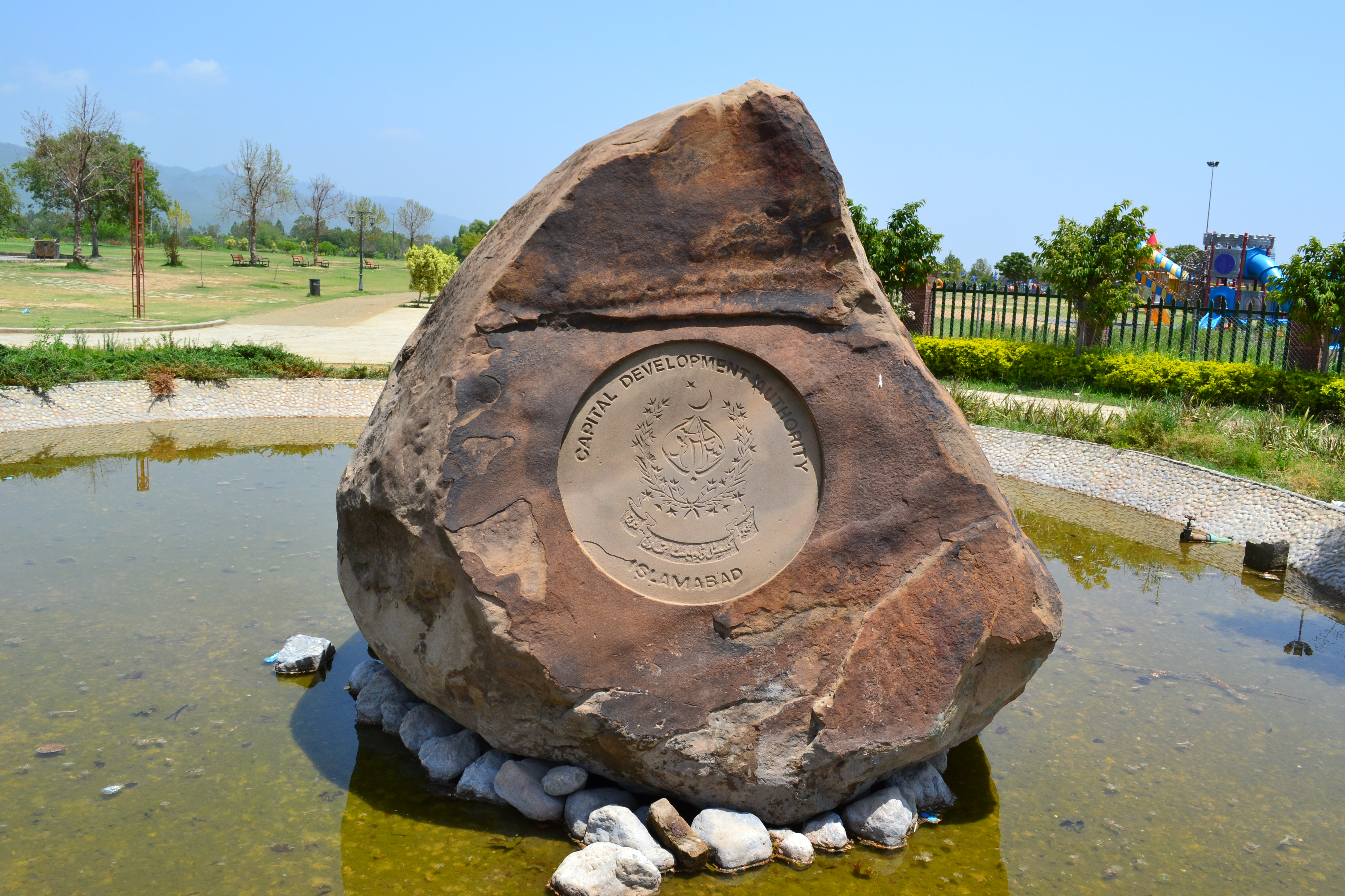 Foundation Stone of Capital Park (F/9 Park Islamaabad)